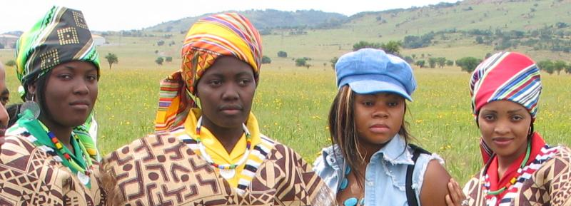 Shooting Ben kabongo Music video